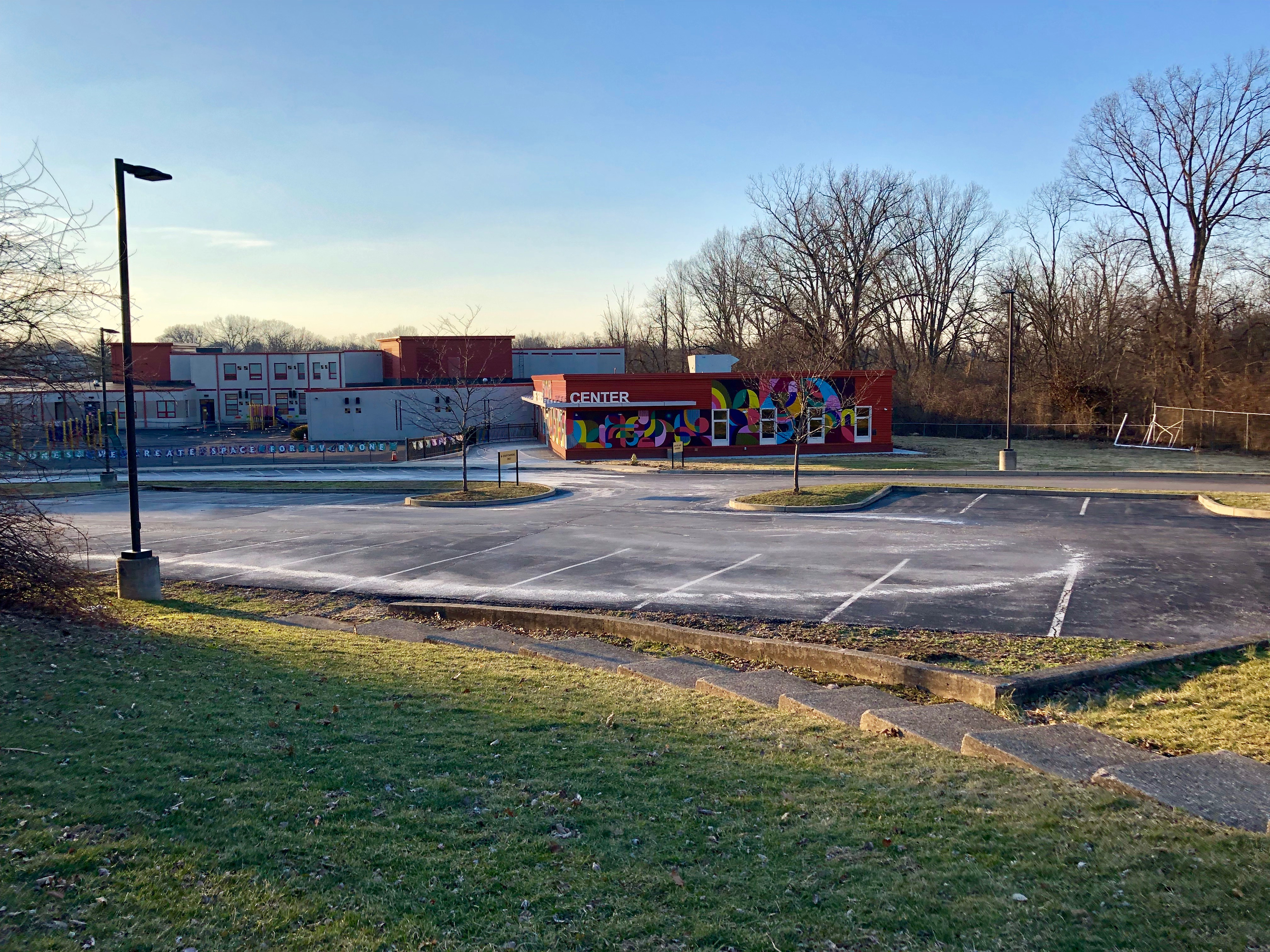 Academy of World Languages, Evanston, Cincinnati, OH